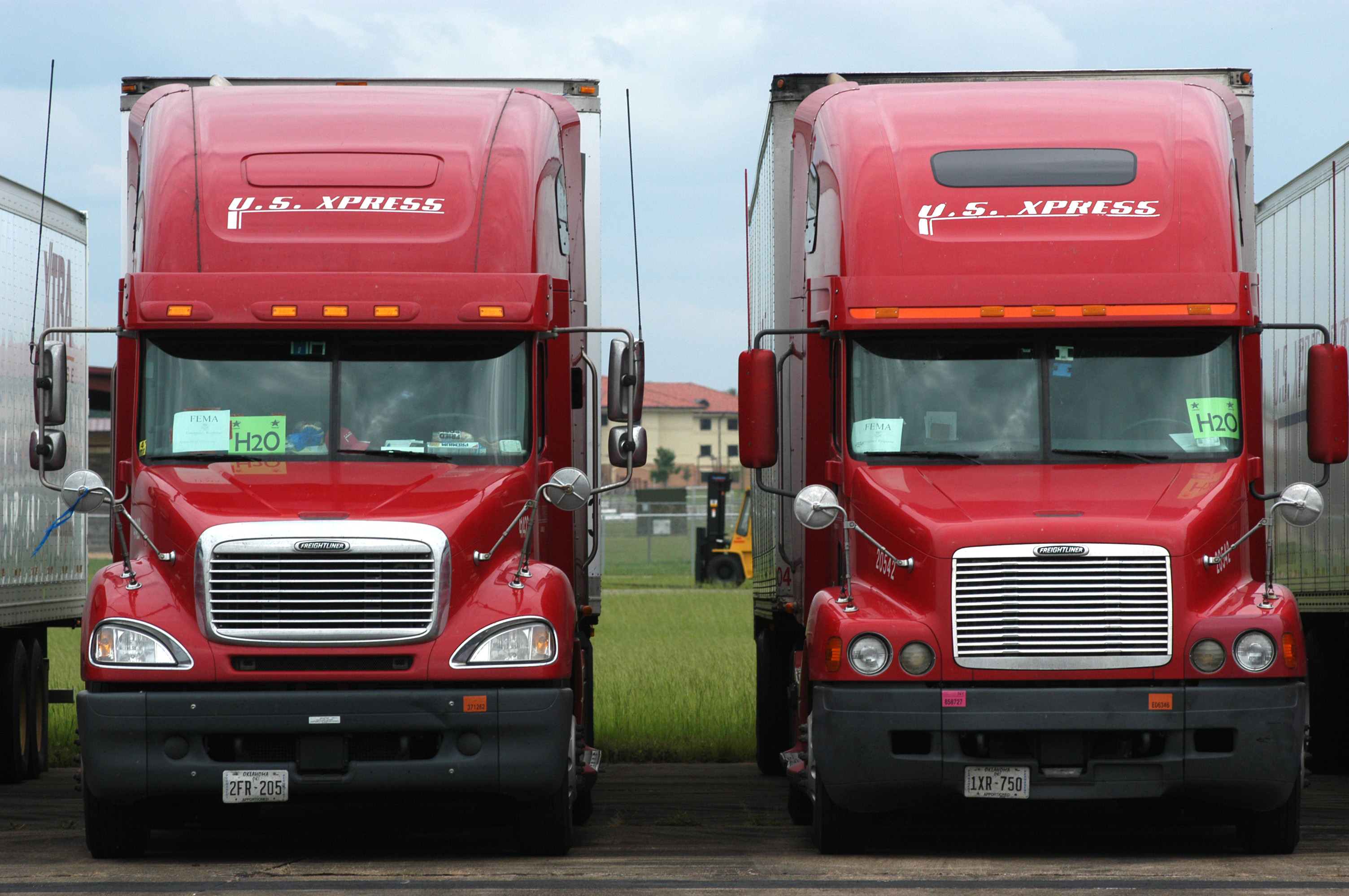 Montgomery, Alabama, July 11, 2005 -- Semi-tractor trailer trucks at Maxwell Air Force Base filled with bottled water are awaiting their final destination. FEMA and others from all over the U.S. are responding to those affected by Hurricane Dennis. FEMA Photo/Mark Wolfe